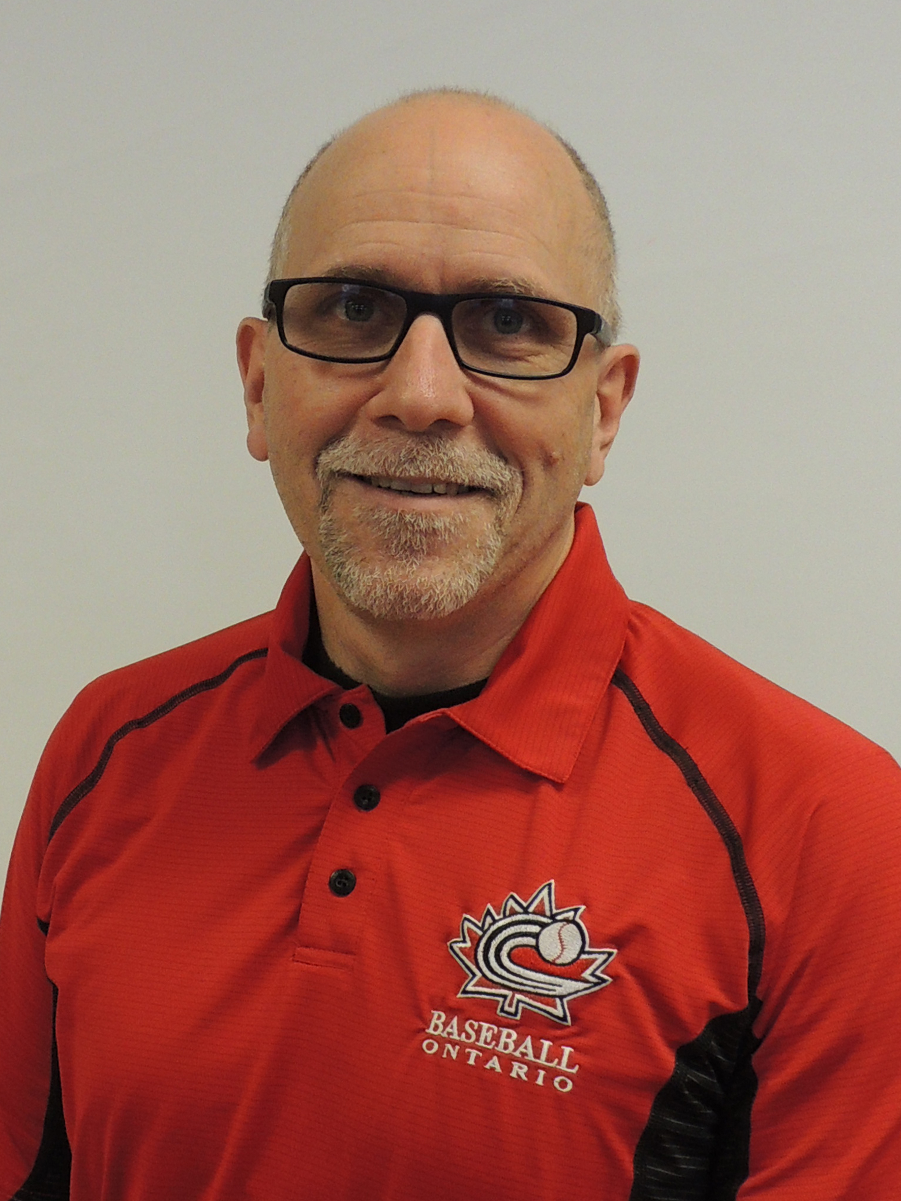 Ray Merkley Supervisor of Umpires